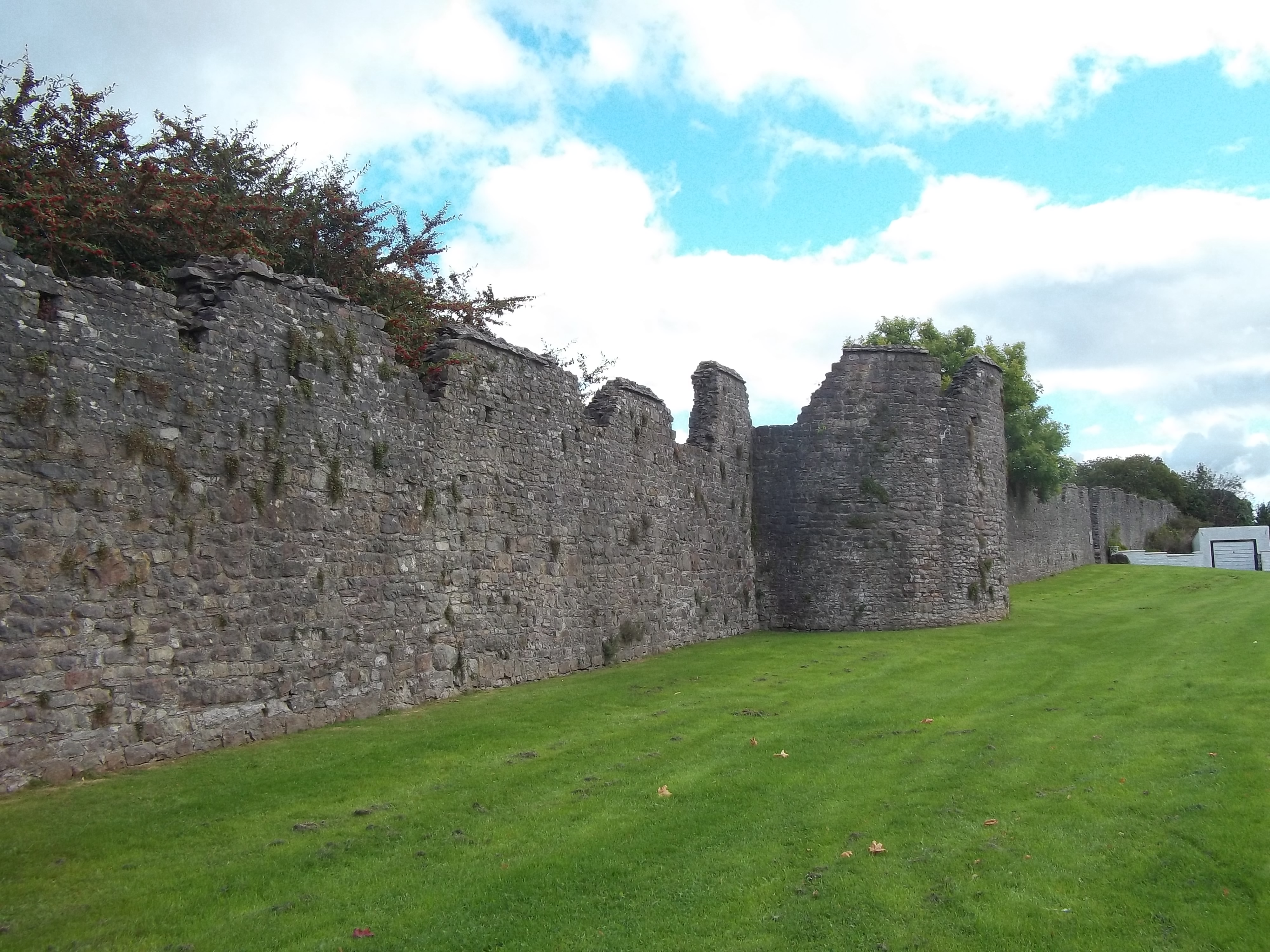 Surviving section of the medieval town wall of Chepstow, Monmouthshire, Wales. A nearby plaque reads: "The wall that defended the mediaval town of Chepstow has been called the Portwall for many years. It was apparently planned and built as a whole by order of Roger Bigod, fifth Earl of Norfolk, during the period 1272-1278. About two-thirds of the original length of 1123 metres still survives. . . . The wall now appears smaller as the ground level has risen by about 2m, there was also a defensive ditch in front of the wall."